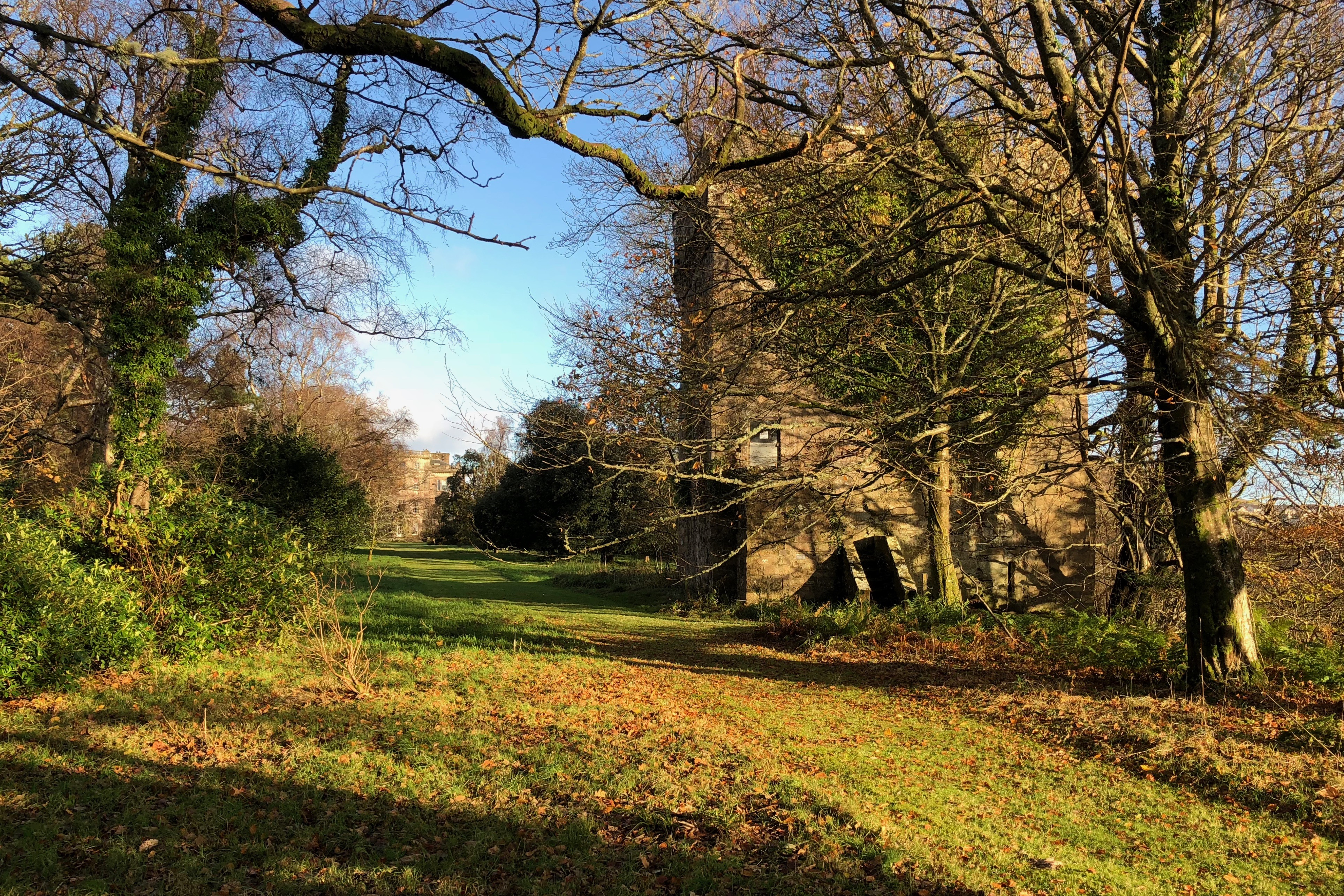 Ardgowan Castle, a 15th century tower house, to the right of the lawn leading up to Ardgowan House. It is near Inverkip in Scotland, looking over the Firth of Clyde, and was built on the site of the earlier fortress of Inverkip Castle dating from before the 13th century.